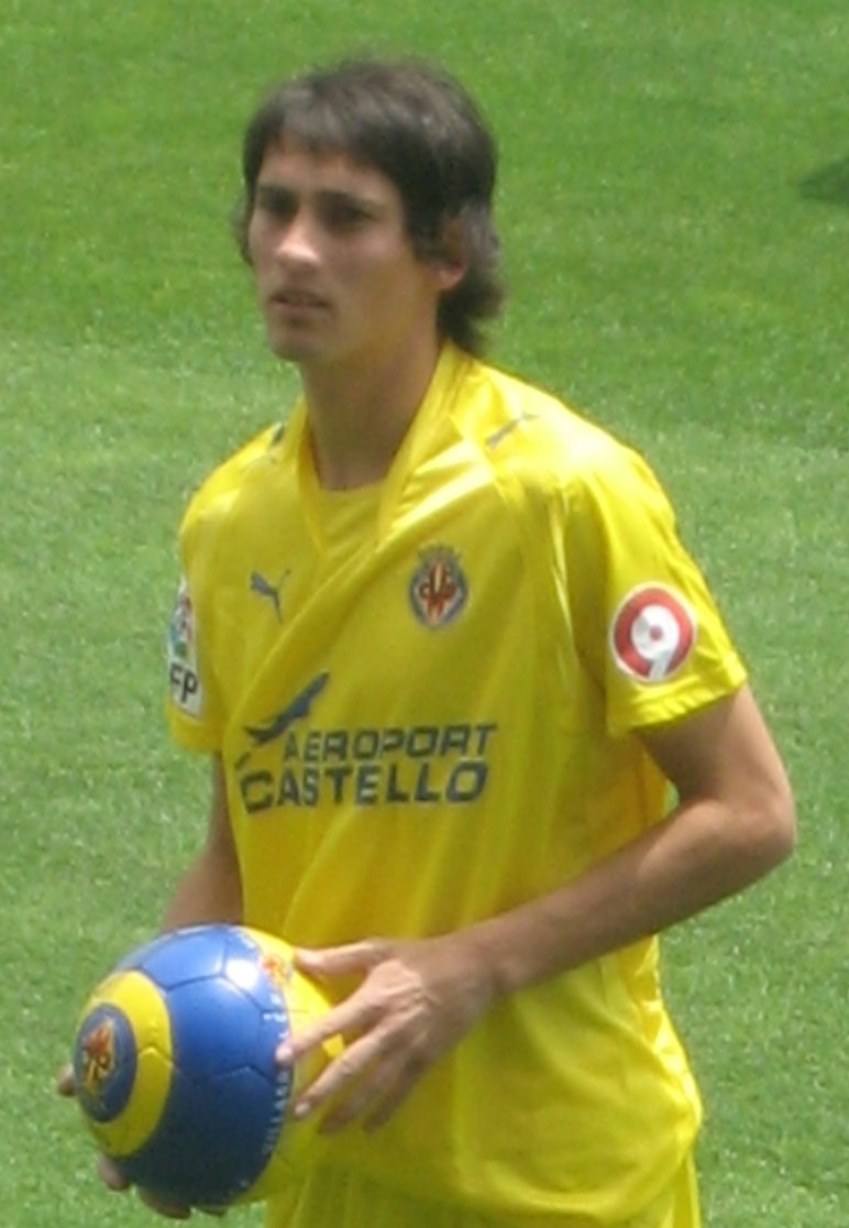 Robert Flores' presentation in Ciutat Esportiva del Villarreal CF after been signed by Villarreal CF